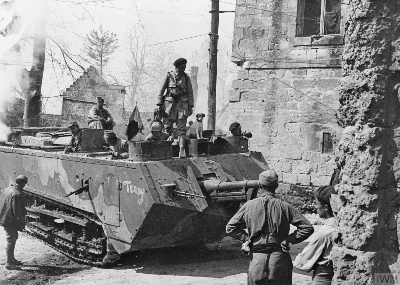 The Nivelle Offensive, April-may 1917 A French Saint-Chamond tank named "Teddy" with a 75 mm field gun at Conde-sur-Aisne, 3 May 1917.